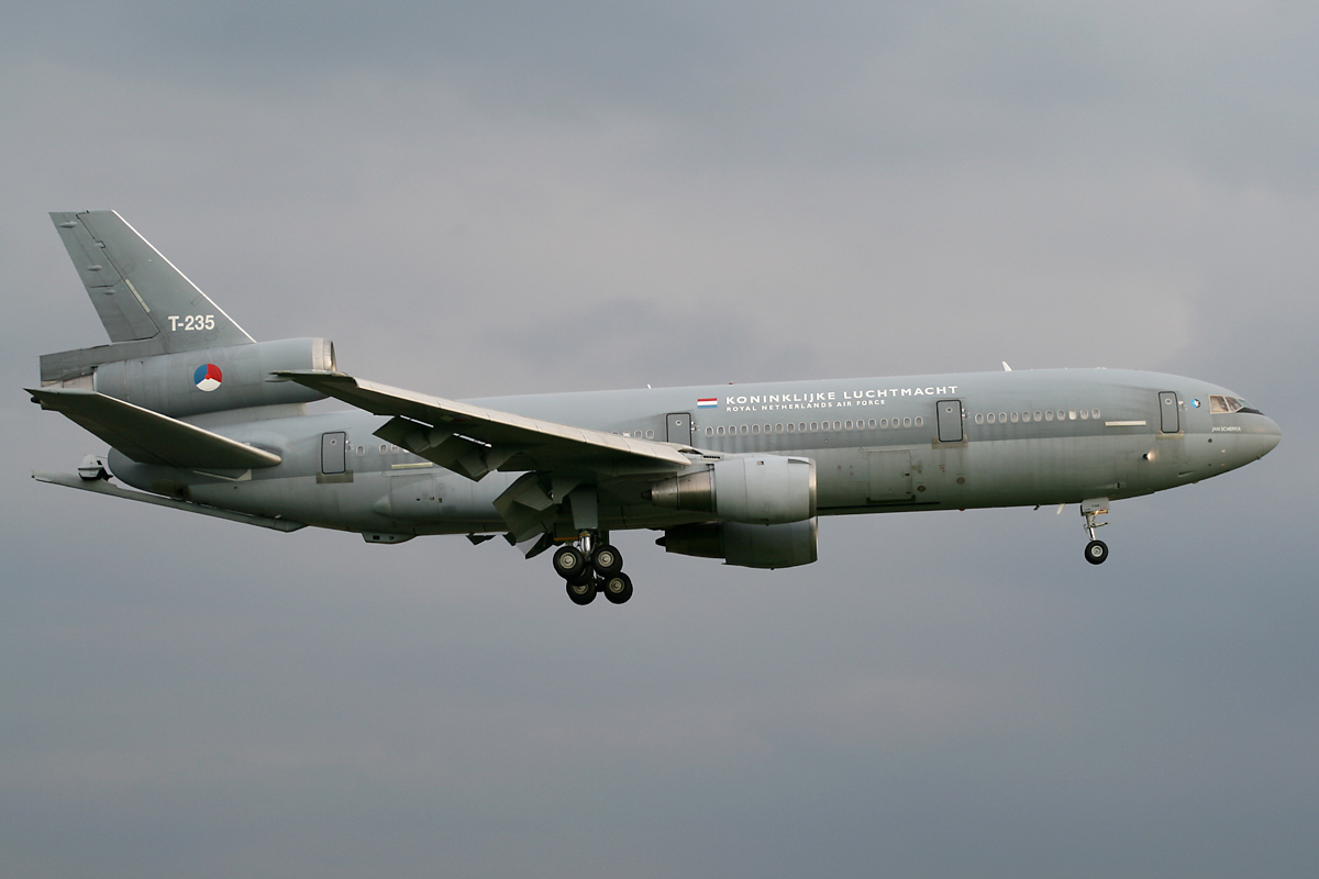 A McDonnell Douglas KDC-10-30CF of the Royal Netherlands Air Force while landing at German airport Hamburg-Fuhlsbüttel